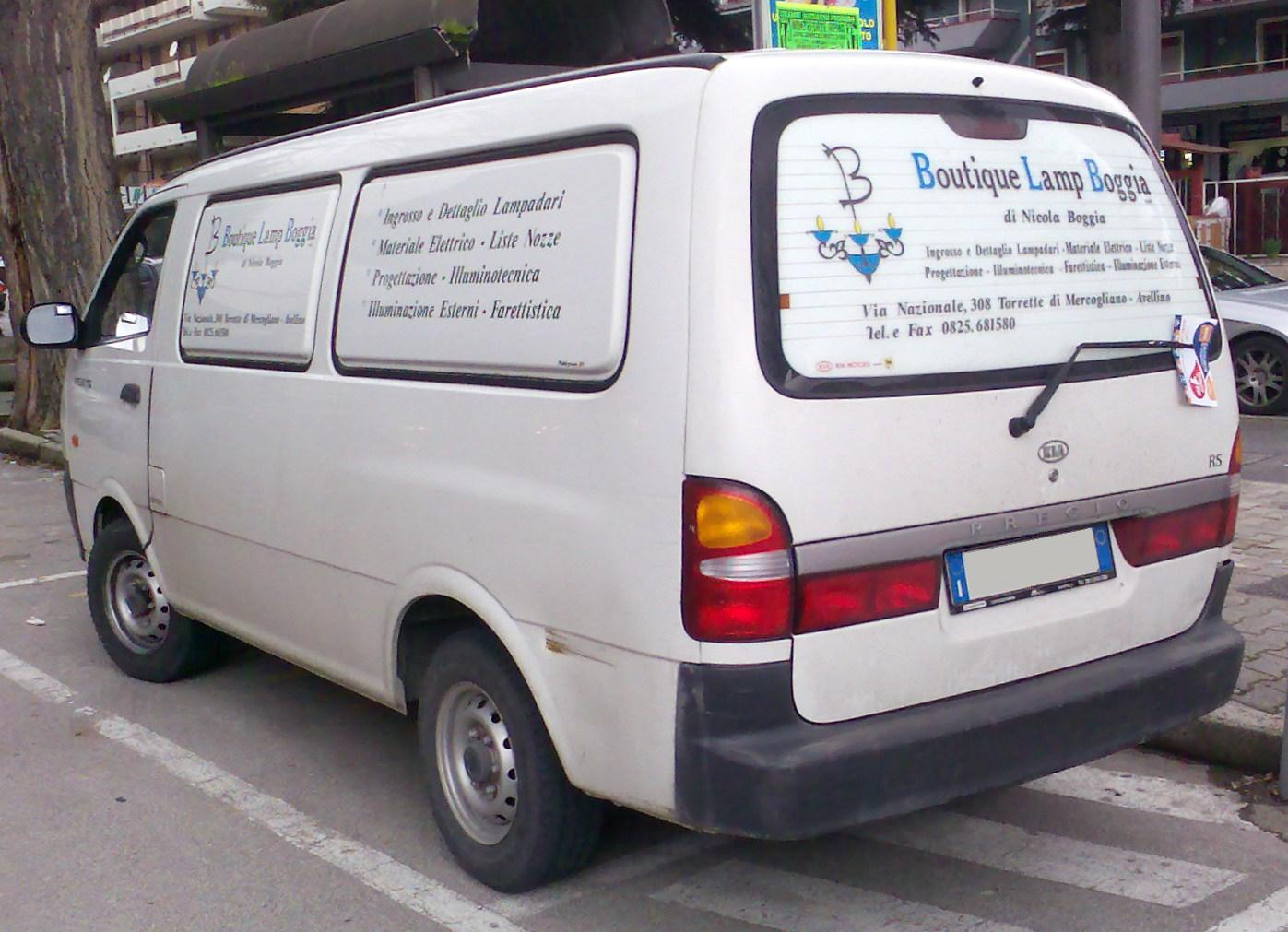 Kia Pregio TCi RS